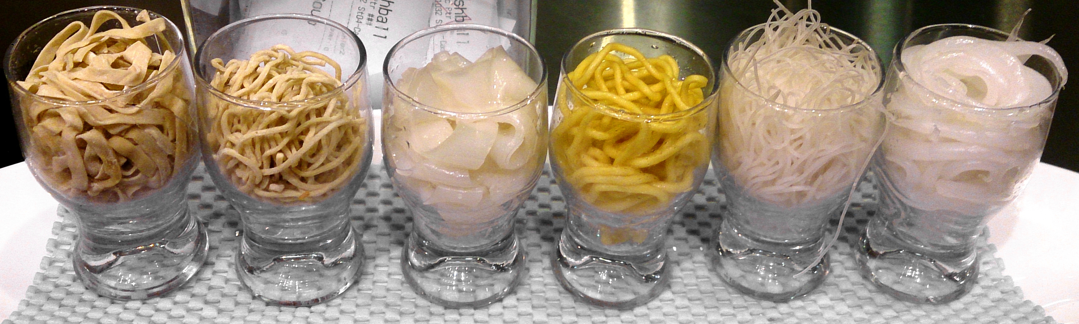 The different types of noodles commonly found in Singapore. From left: (1) mee pok, (2) mee kia, (3) kway tiao 粿條 or 河粉, (4) common yellow noodle (5) Rice vermicelli or bee hoon 米粉 (6) bee tai mak 老鼠粉